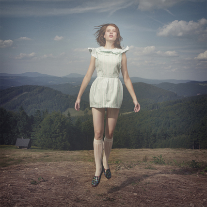 Work of Czech photographer Tereza Vlčková